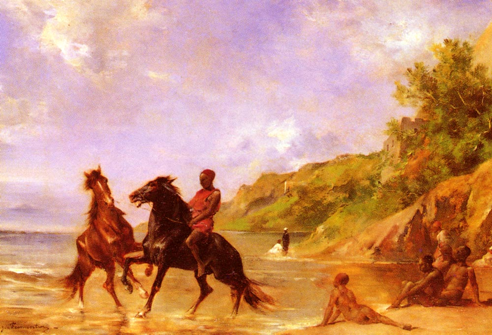 Eugene Fromentin's art